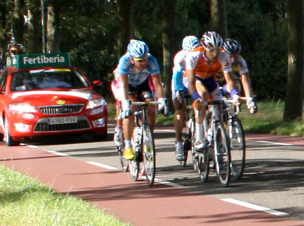 Vuelta a España 2009 Drenthe